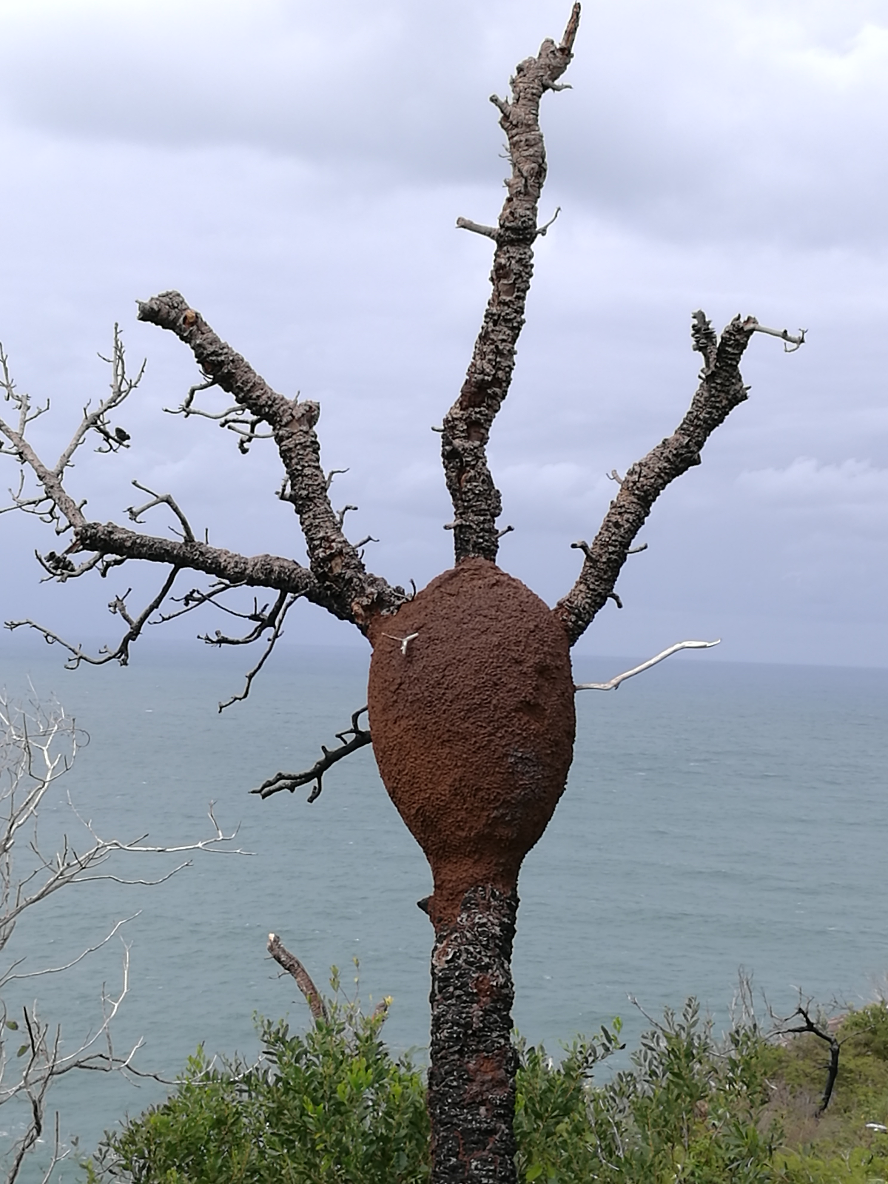 termite nest in a dead Banksia, Barrenjoey Headland, Palm Beach, Sydney, New South Wales